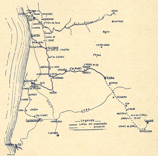 Vouga railway Network, in Portugal, at his maximum extension, in the 1930s. The map also depicts the cancelled projects of Arrifana to Senhora da Hora, in the Póvoa Railway, Aveiro-Mar to Cantanhede, in the Figueira da Foz branch line, and Viseu to Covilhã, in the Beira Baixa Railway. This image was originally published in the Gazeta dos Caminhos de Ferro No. 1105, of the 1st January 1934, and scanned by the Hemeroteca Municipal de Lisboa.